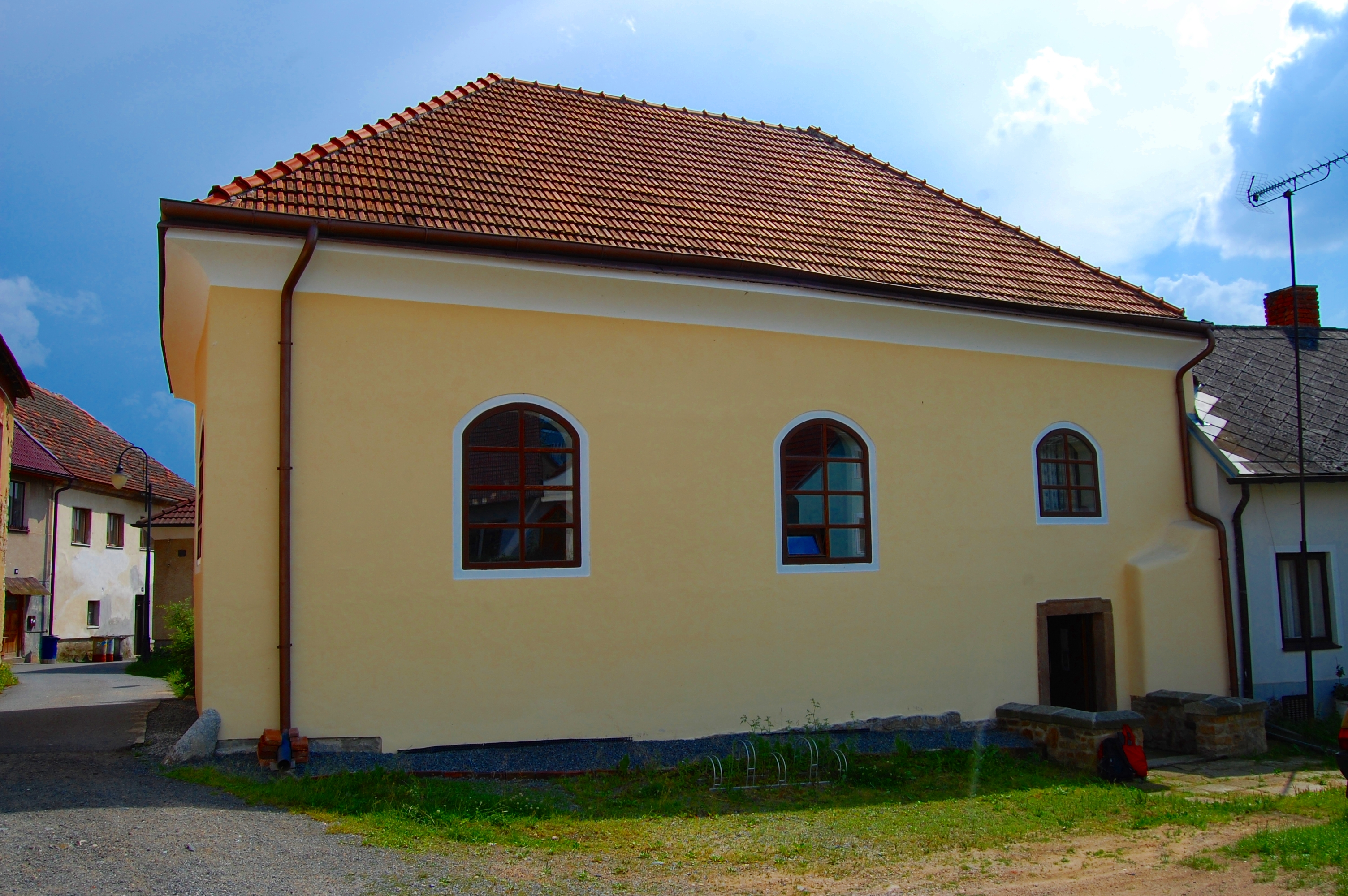 Synagogue in Kosova Hora